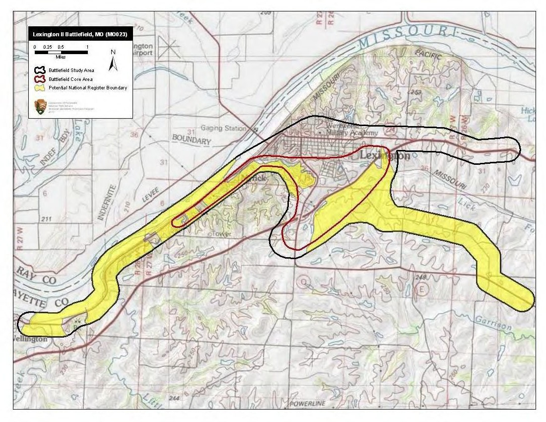 Map of battlefield core and study areas. The ABPP expanded the 1993 Study Area to include the Union encampment, troop movements from the encampment down to the Old Fair Grounds south of town, the two Confederate approach routes from the east, and the routes of withdrawal used by Union and Confederate forces to the west (the routes of withdrawal end at a road intersection described in the reports of the engagement found in The War of the Rebellion: a Compilation of the Official Records of the Union and Confederate Armies). The ABPP reduced the 1993 Core Area slightly in the north and south to illustrate more accurately where fighting occurred. The Core Area was extended to the west to reflect the extent of the fighting during the Federal retreat.